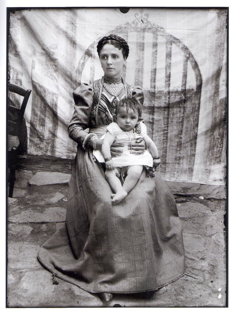 Woman from Klisoura (Vlahoklissoura), Kastoria.